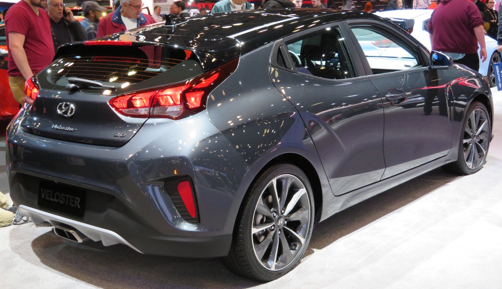 In New York International Auto Show, at Manhattan, New York, USA